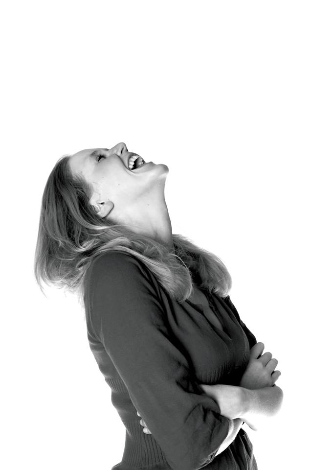 Pippa Evans laughing